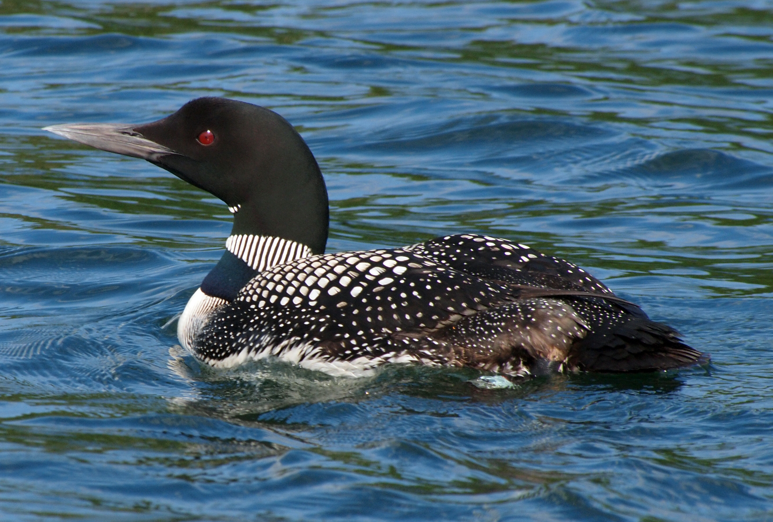 A Great Northern Loon (also known as the Great Northern Diver and the Common Loon) in Minocqua, Wisconsin, USA.